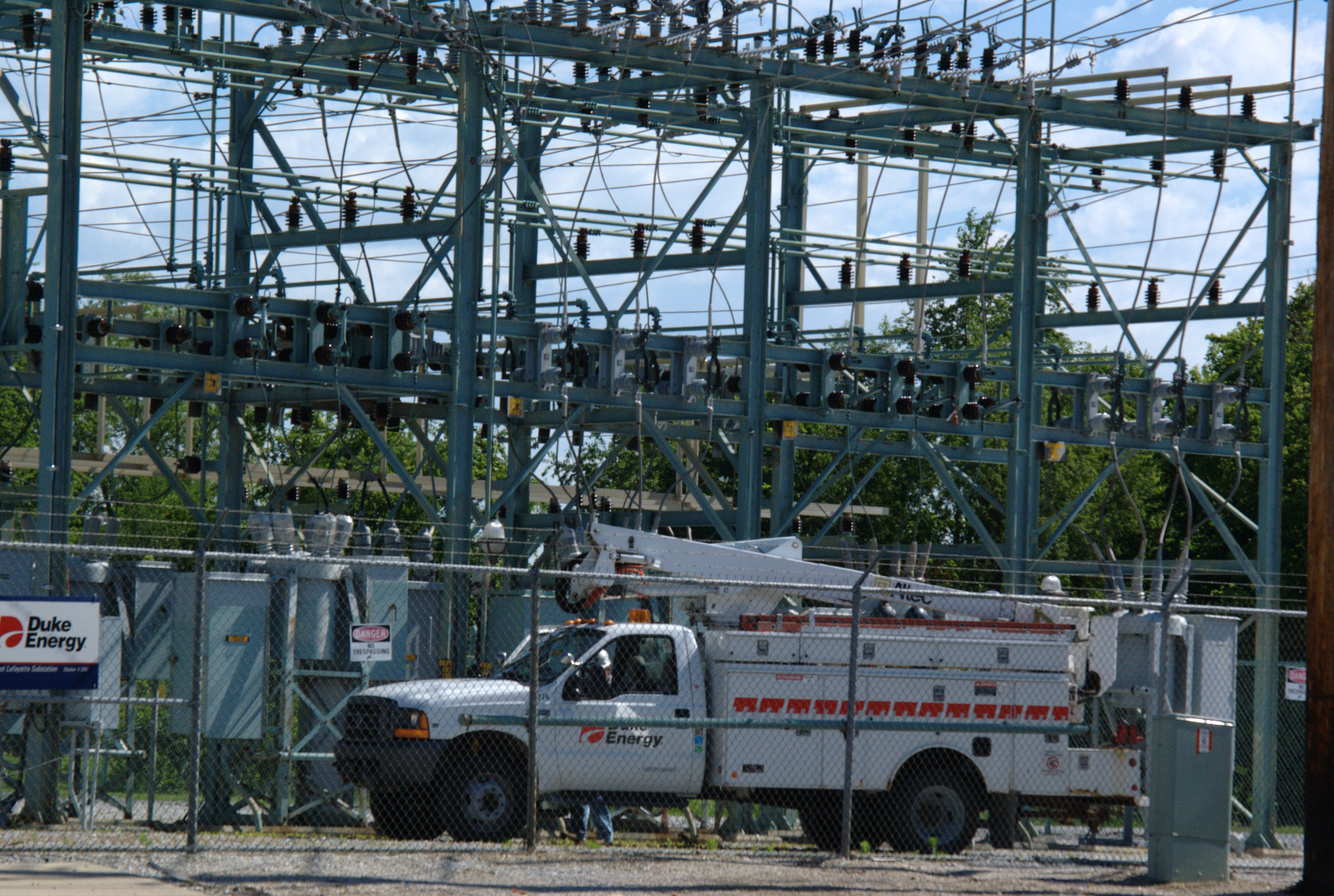 Duke Energy electric substation in Lafayette, IN.